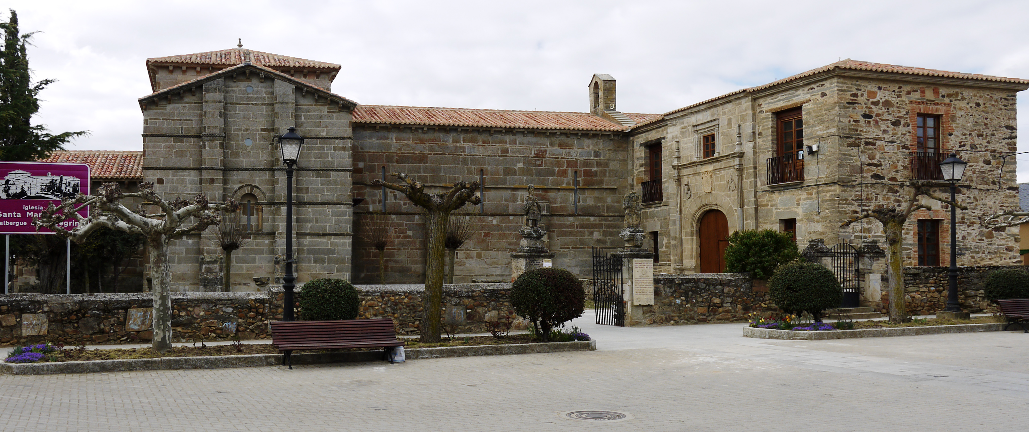 Main view, in the church Santa Marta de Tera, Benavente, Zamora, Spain.